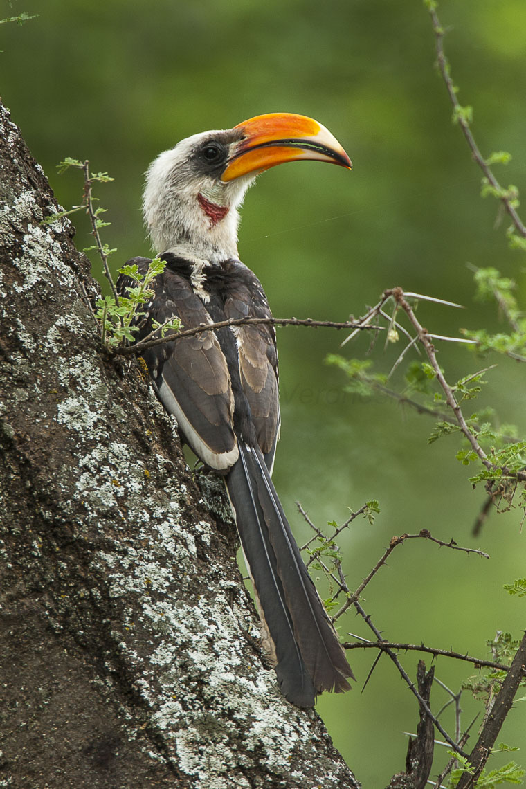 Jackson's Hornbill - Baringo_NH8O0509